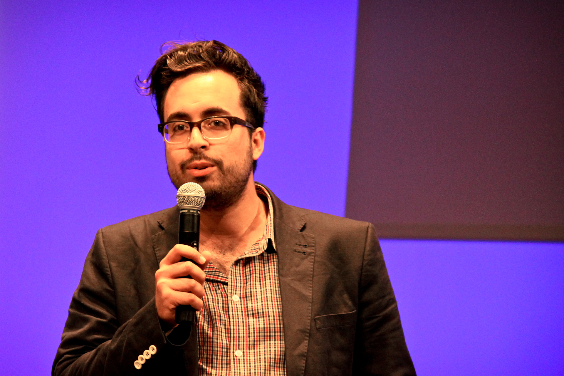 Mounir Mahjoubi at lift conference 7 Jul 2011